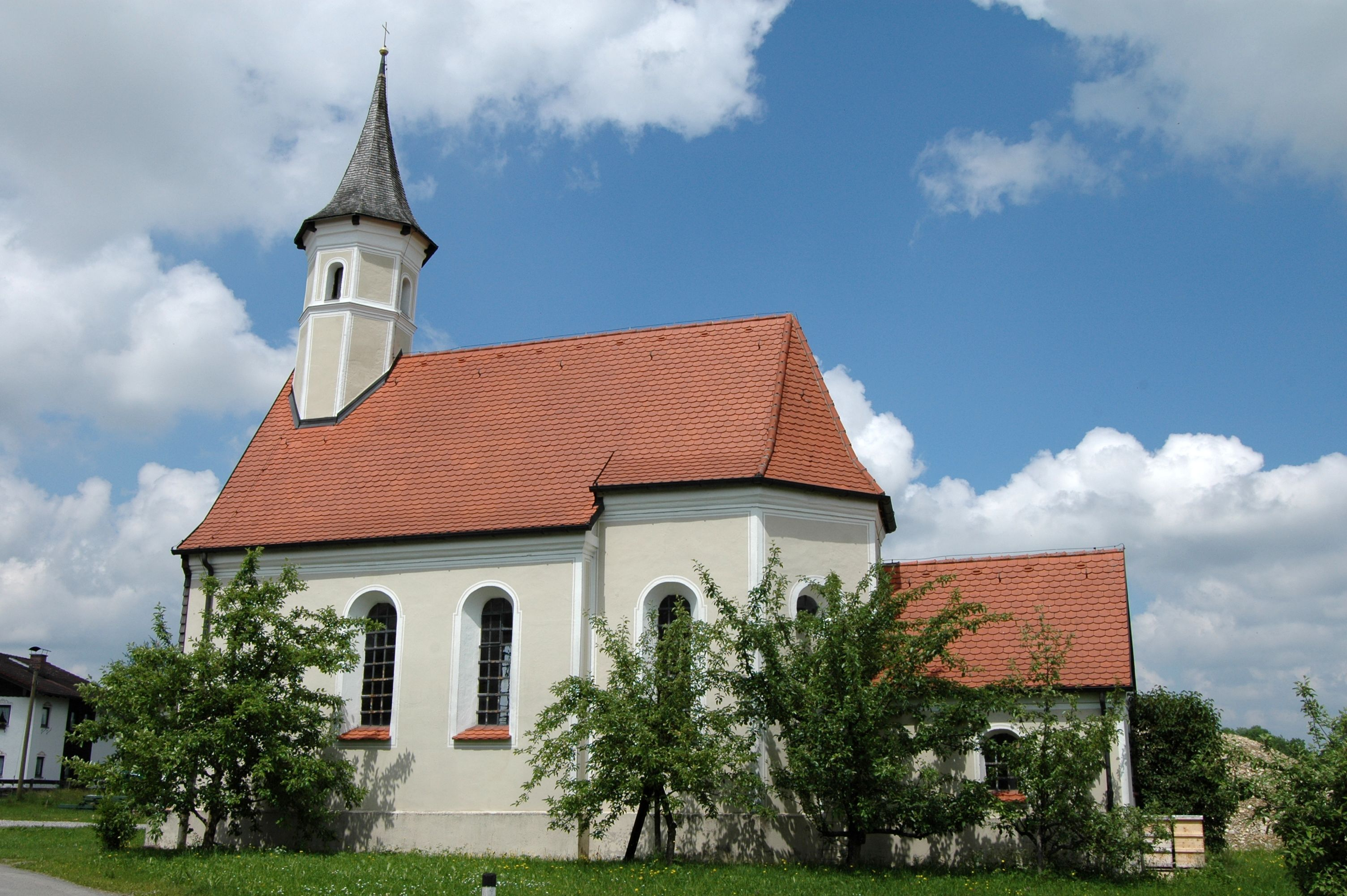 St. Isidor Chapel in Linden (Bruckmühl/Germany)